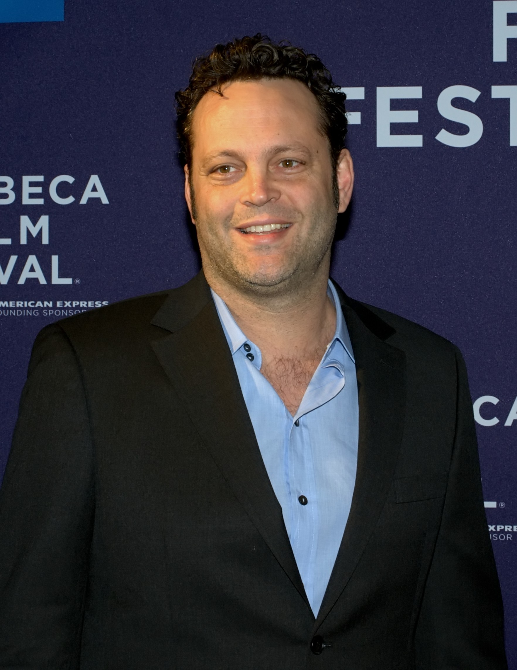 Vince Vaughn Shankbone 2010 NYC